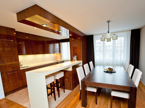 Julie Wimmer - Interior